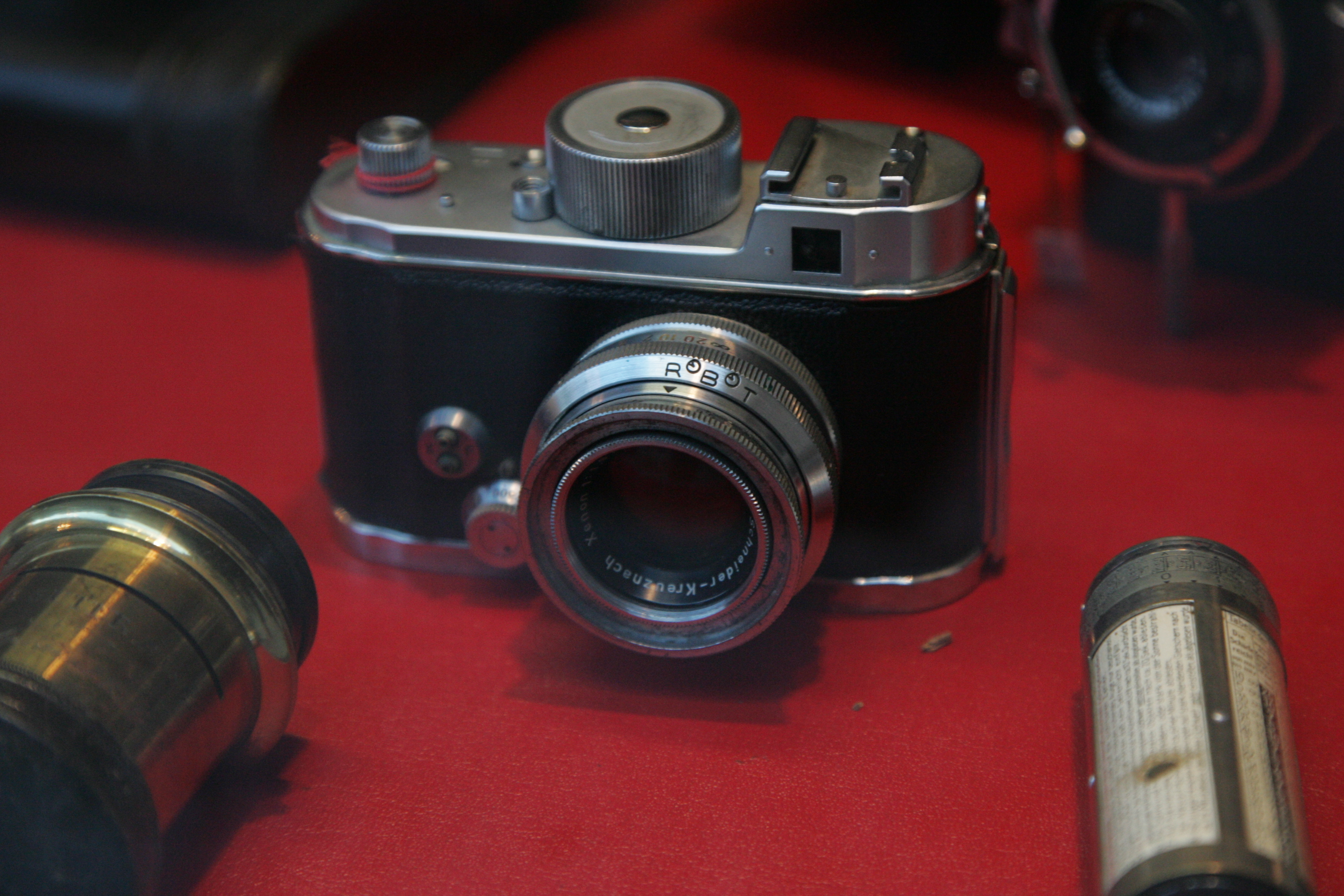 Robot camera